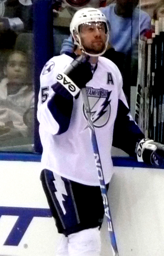 Mattias Ohlund of the Tampa Bay Lightning watches the big screen during a TV timeout against the New York Islanders in Uniondale, NY on 12/21/2009.